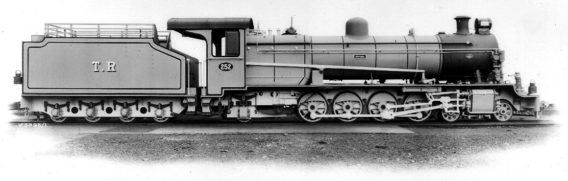 Vulcan Foundry works photo of Tanganyika Railway RV class locomotive no. 252 (side view).